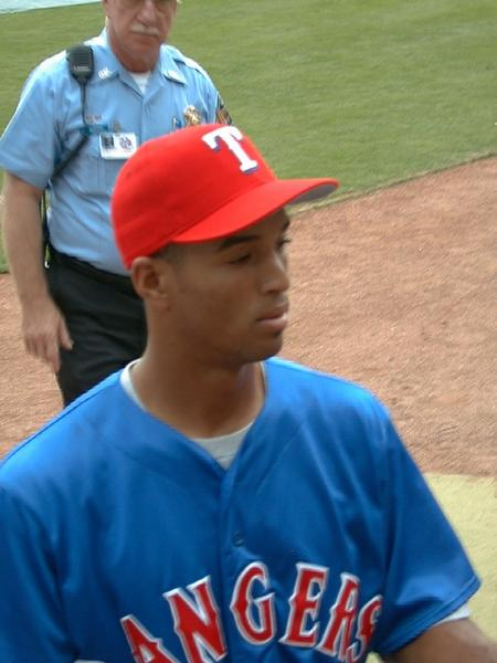 This is a picture I took myself of Scarborough Green before an April 11, 1999 Texas Rangers game 03:46, 8 October 2007 . . Dopefish . . 450×600 (35 KB)